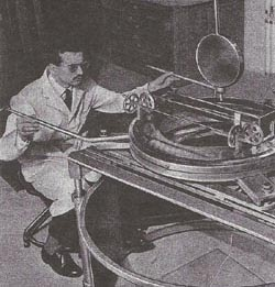 Picture of Jacques Bourgeot operating the Allais paraconical pendulum, provided by Maurice Allais who took the photograph.